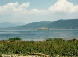 Lake Prespa|Lake Prespa as seen from Liqenas in Albania.